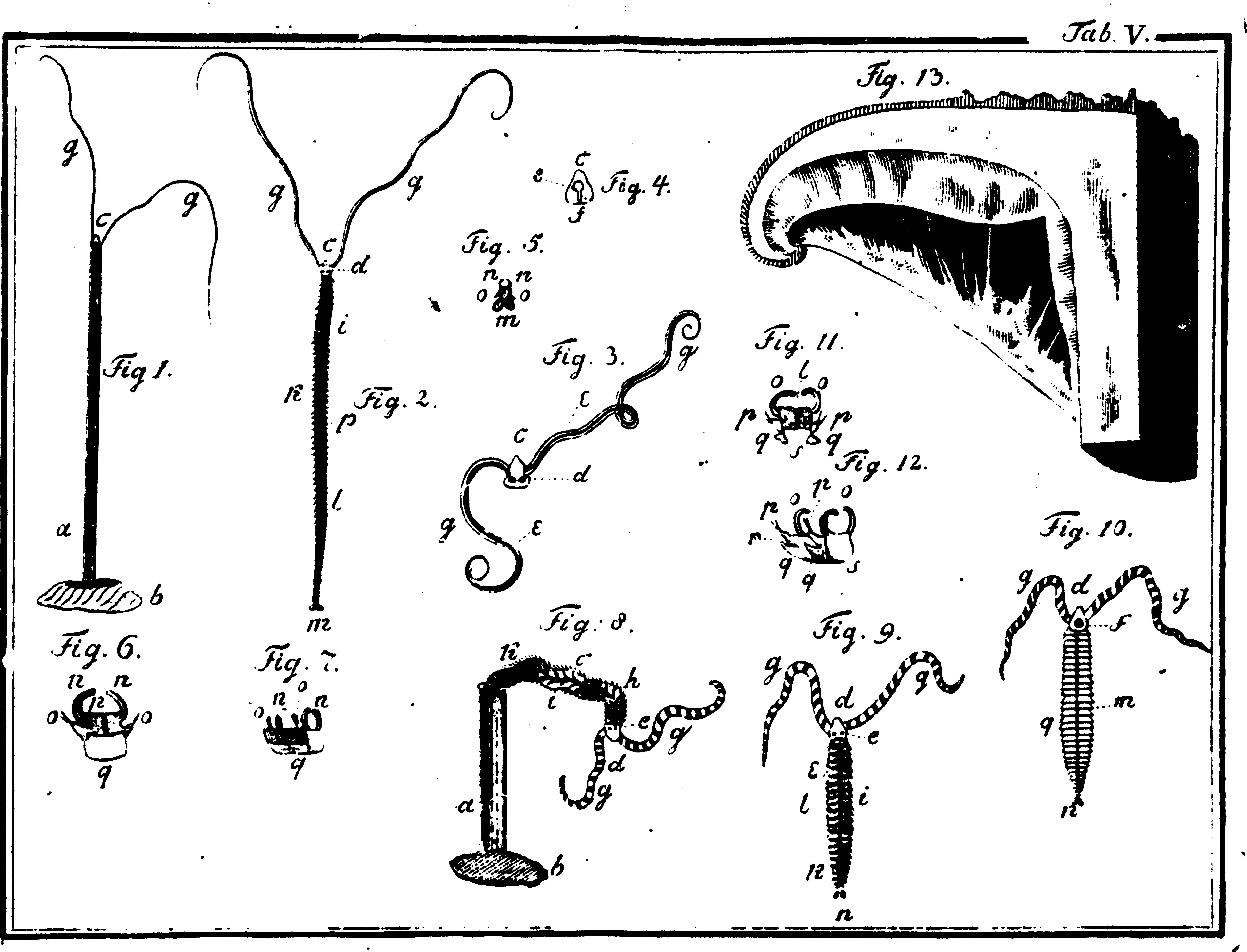 Genus Spio (Family Spionidae): Spio seticornis (Fig. 1–7) and Spio filicornis (Fig. 8–13). Legend. Fig. 1. — 7. Spio seticornis. Fig. 1. Inside the tube, Fig. 2. outside the tube. Fig. 3 head and palps from dorsal view, magnified. Fig. 4. head from ventral view, without palps. Fig. 5. pygidium. Fig. 6 middle segment from dorsal view, und Fig. 7. two from lateral oblique view, strongly magnified. Lit. a. the tube, b. sea bed. c. prostomium. d. eyes. e. mouth opening, and f. its groove. g. palps, and h. their line. i. anterior dark segments. k. middle light green segments. l. posterior sea-green segments. m. anal cirri. n. dorsal palps. o. parapodia. p. red dorsal line. q. ventrum. Fig. 8. — 12. Spio filicornis. Fig. 8. Worm emerging from the tube as observed in the natural environment. Fig. 9. worm removed from the tube in dorsal and Fig. 10. ventral view. Fig. 11. middle segment from dorsal, and Fig. 12. two segments from lateral oblique view. Lit. a. the tube, b. sea bed. c. the worm emerging from the tube. d. prostomium. e. eyes. f. mouth opening. g. palps. h. anterior dark segments, i. middle yellow-reddish segments, k. posterior dark segments. l. greyish stripe on dorsum. m. same on ventrum. n. anal cirri. o. dorsal palps. p. parapodia. q. ventral projection. r. lateral furrow. s. ventrum.